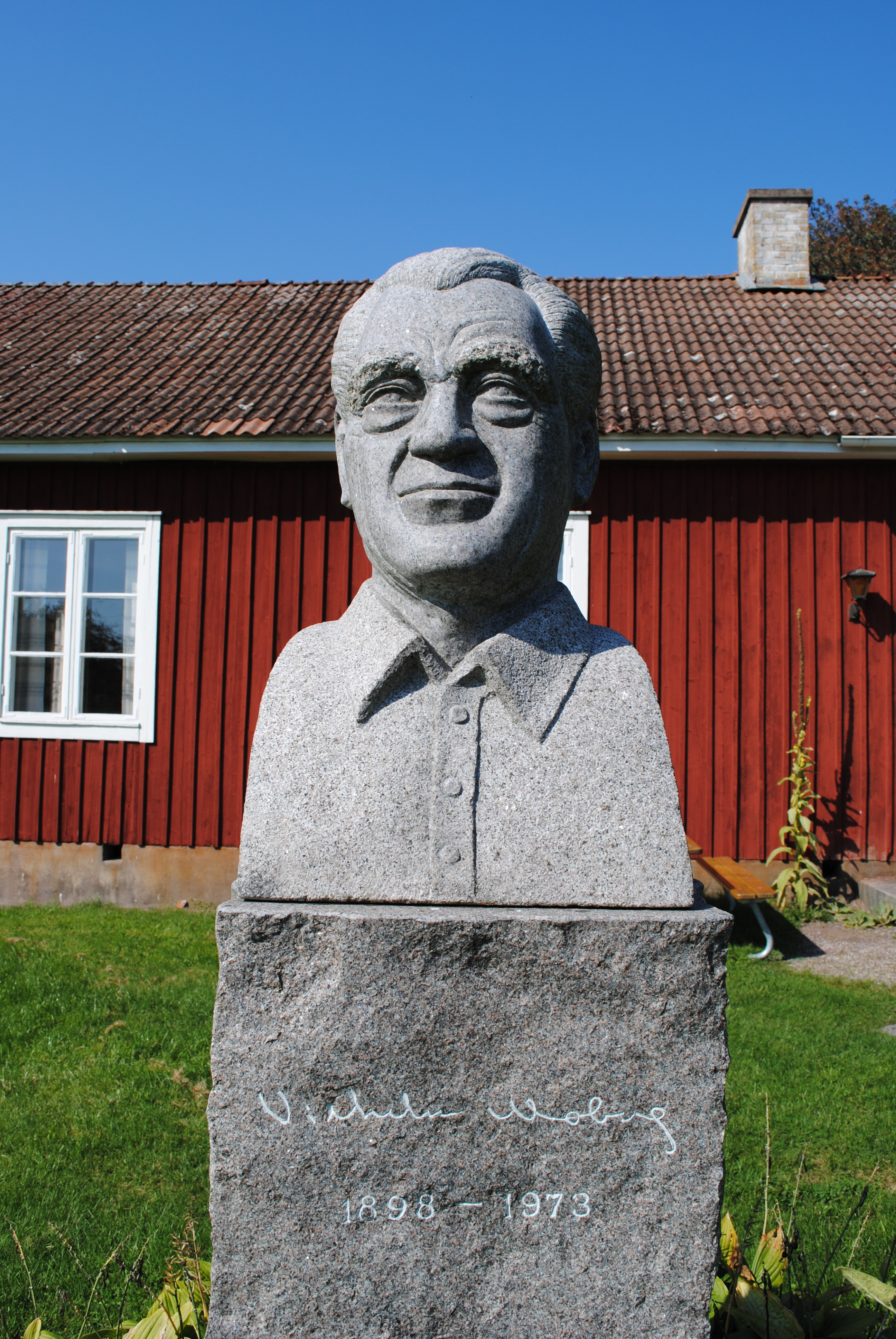 Moshultamåla old school. Bust of Vilhelm Moberg with his signature.